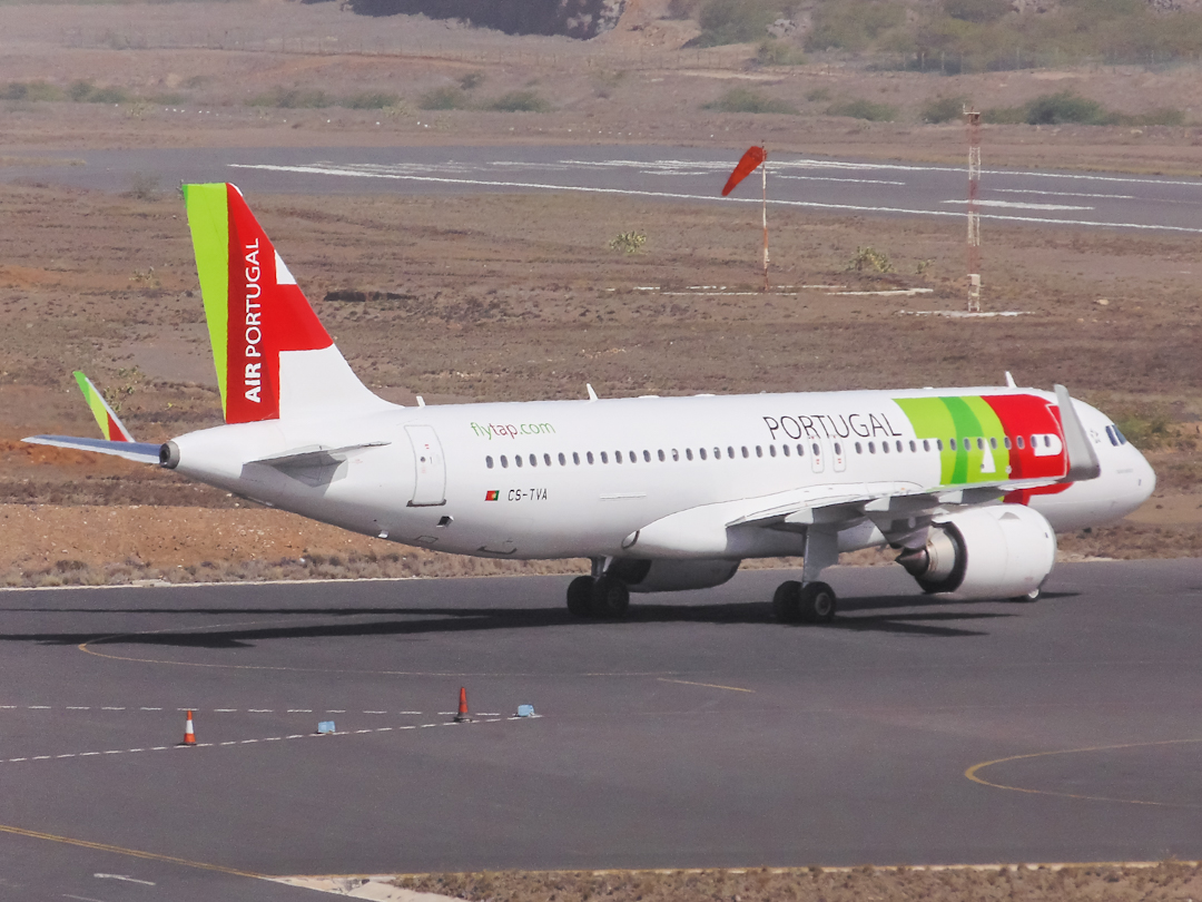 An A320neo of the Portuguese airline TAP Portugal parked at São Vicente Airport. (VXE/GVSV)